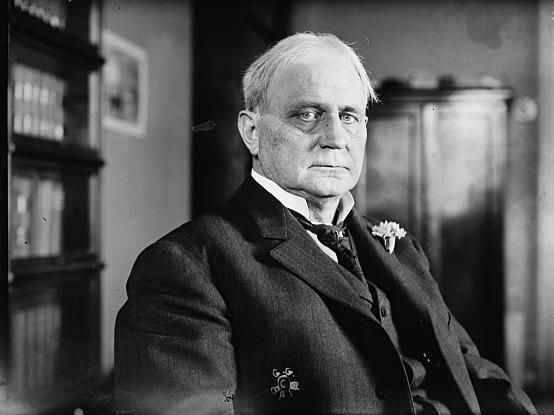 Champ Clark, American politician